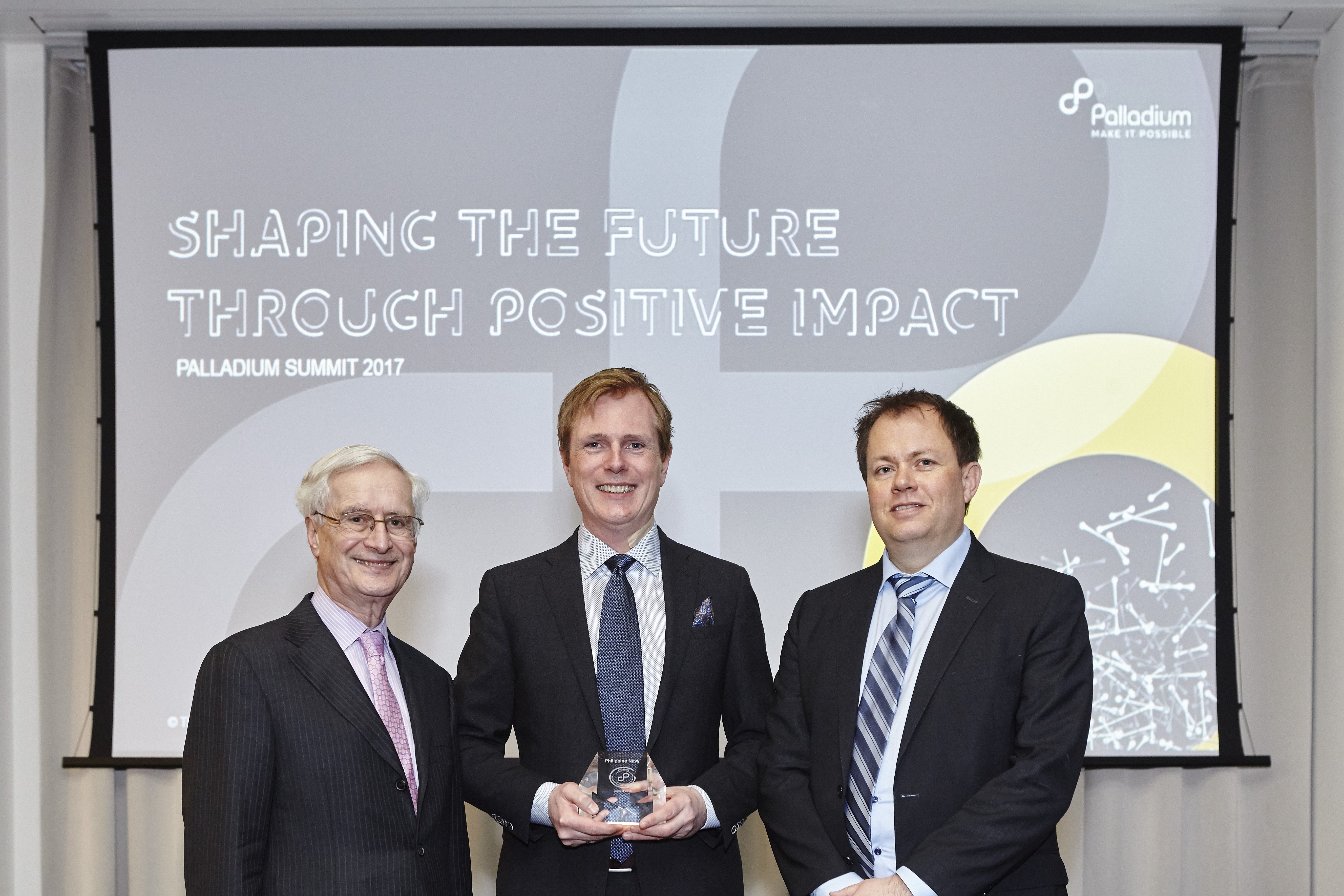 Avinor is awarded the Palladium Balanced Scorecard Hall of Fame for Executing Strategy™ at the 2017 Palladium Positive Impact Summit. Pictured from left to right: Robert S. Kaplan, Head of the Office of Strategy Management Orjan Slotteroy, and CFO Thomas Oyn.